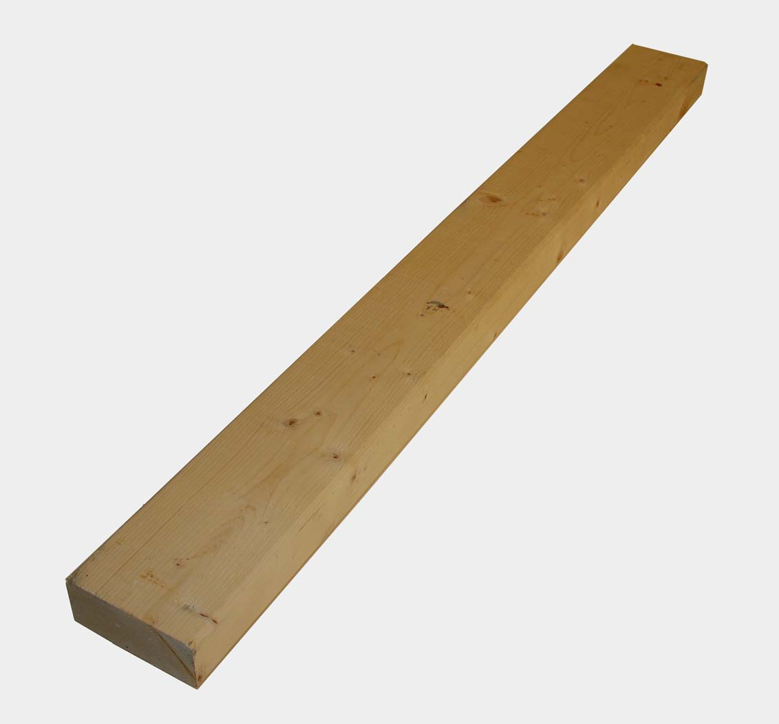 This 2 by 4 is a piece of dimensional lumber used in construction in North America. The nominal size is 2 by 4 inches but the actual size is 1.5 by 3.5 in (38 by 89 mm) In American folklore it is often used as a club to get someone's attention. During the anti-trust case, United States versus Microsoft, Judge Penfield Jackson gave this analogy to reporters for the New York Times. He had a trained mule who could do all kinds of wonderful tricks. One day somebody asked him: "How do you do it? How do you train the mule to do all these amazing things?" "Well," he answered, "I'll show you."He took a 2-by-4 and whopped him upside the head.The mule was reeling and fell to his knees, and the trainer said: "You just have to get his attention." U.S. v Microsoft, United States Court of Appeals District of Columbia, June 28, 2001 [1] The photo by Michael Holley, June 2008. Taken with a Canon PowerShot A630 (1/60 second and f/2.8) with on camera flash. The image was touched up with Adobe Photoshop Elements 5.0.